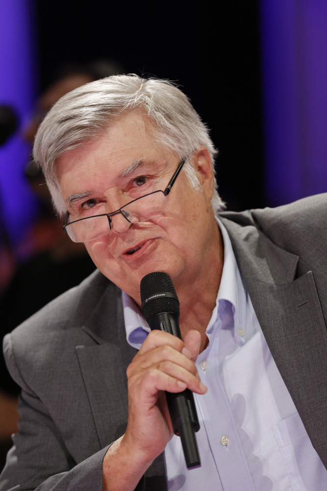 Pierre Veltz speaking at a conference in September 2013.